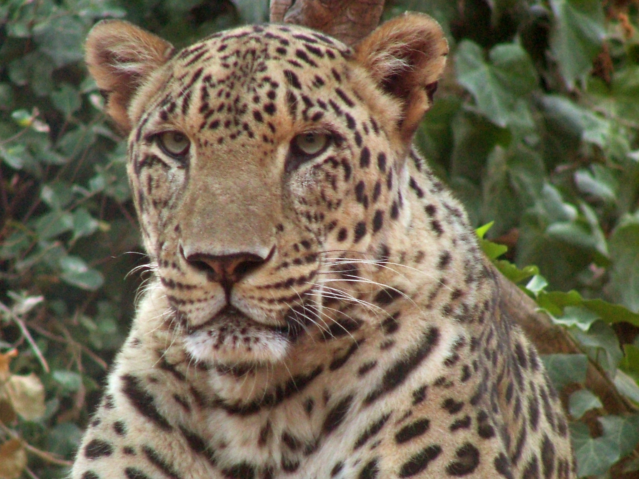 A Persian Leopard (Panthera pardus saxicolor) at the Jerusalem Biblical Zoo.